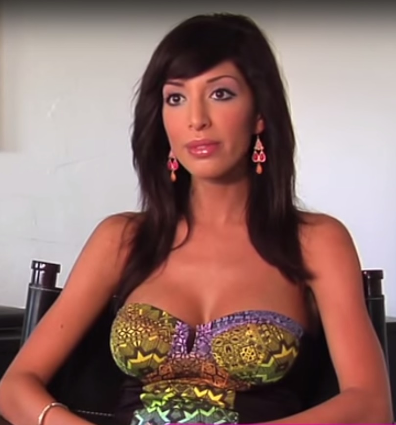 American reality television personality Farrah Abraham, interviewed by RumorFix.